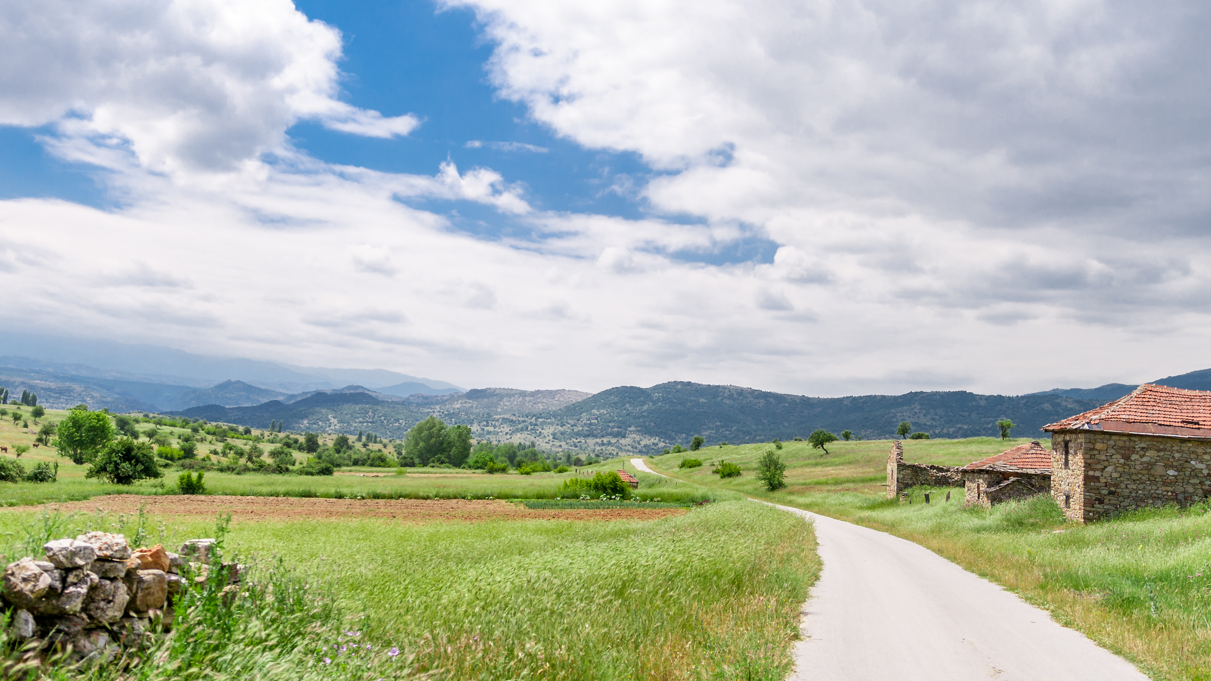 Exit of the village Dunje